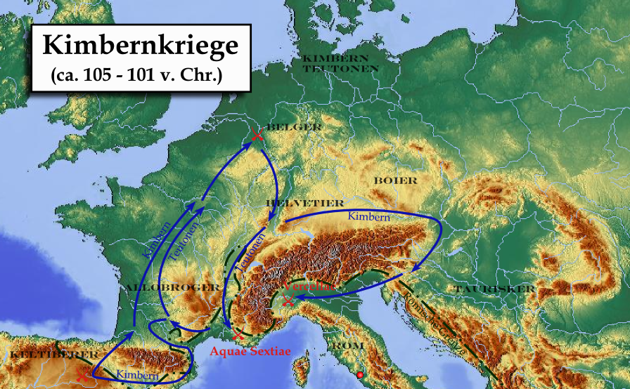 Map showing the Campaigns of Cimbri and Teutoni and their battles against Rome between 113 and 101 B.D.